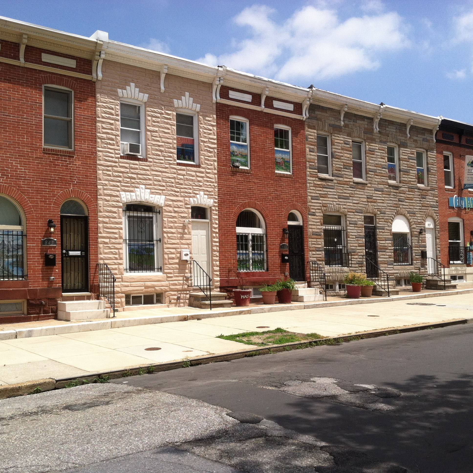 Row-houses in East Monument Historic District, Baltimore, Maryland.